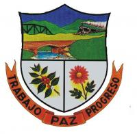 Coat of arms municipality of Piendamo